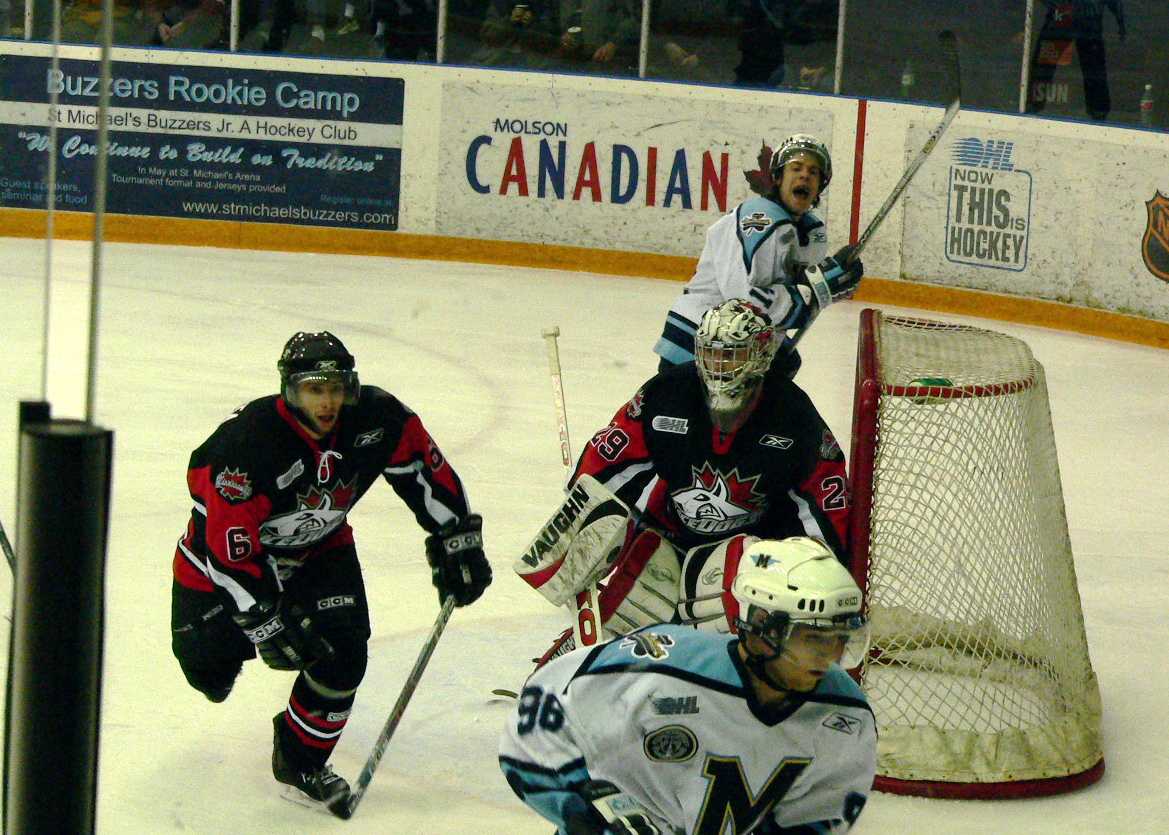 Game 2 of the first round of the OHL playoffs, the first place Mississauga Ice Dogs took on the home team and eighth place Toronto St. Michael's Majors.